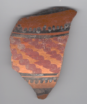 Photo by D. Phillips, Maxwell Museum, UNM